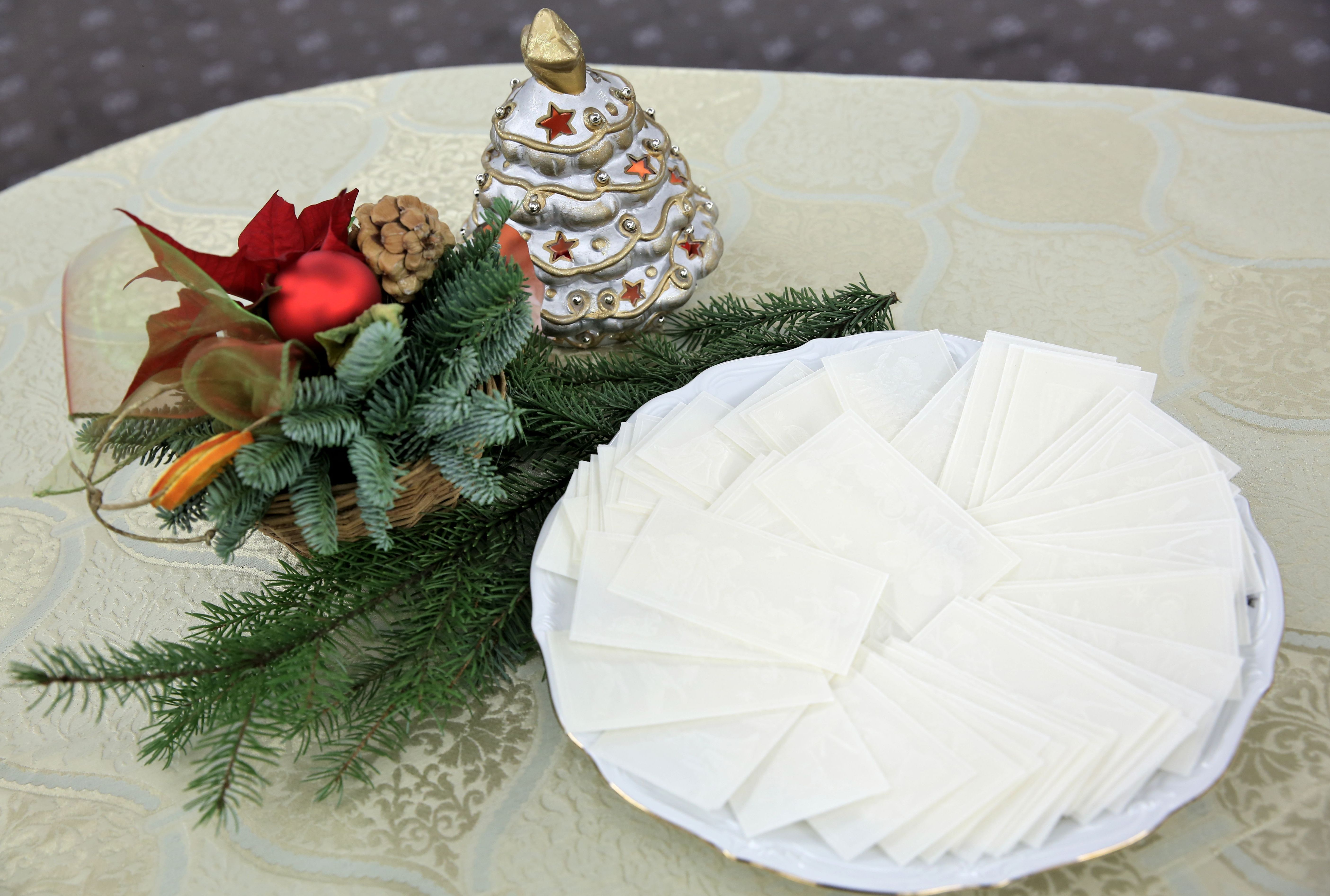 Christmas wafer in the Polish Senate